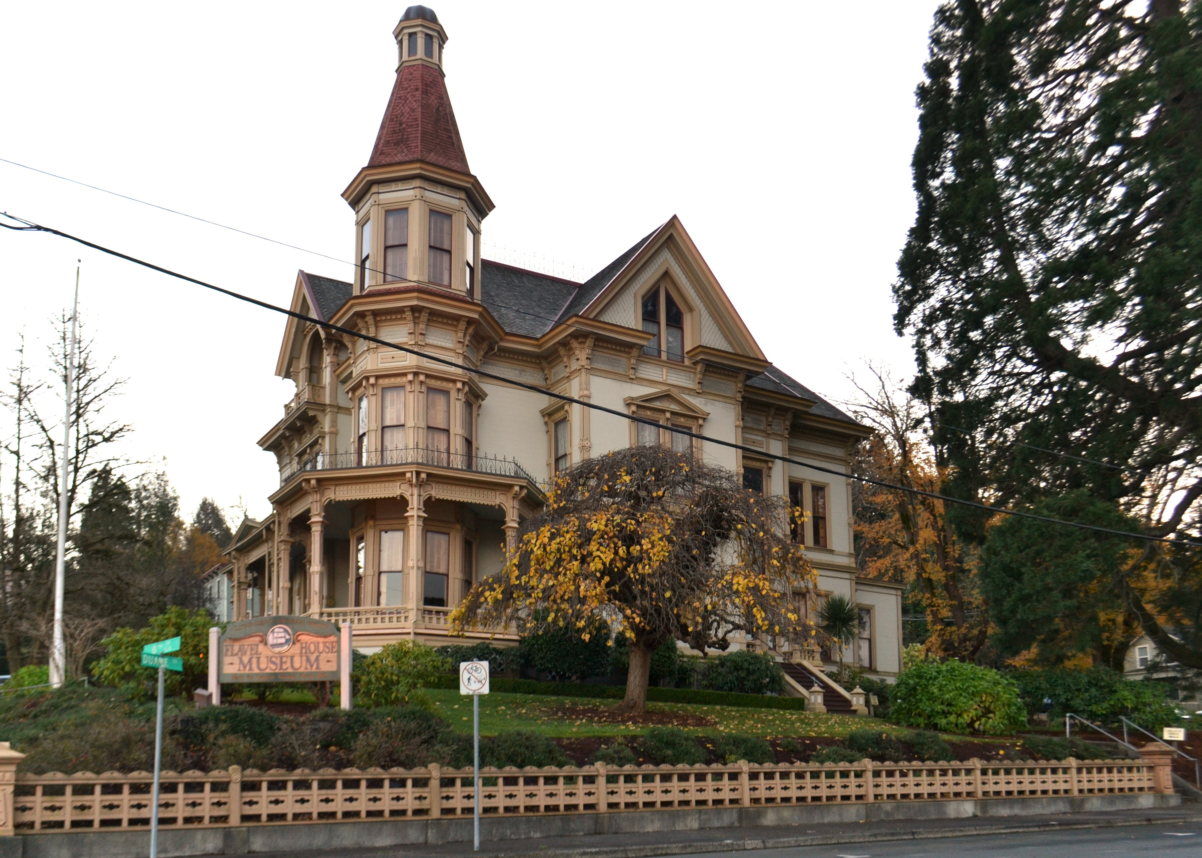 The Flavel House Museum (Astoria, Oregon). This building is one of four different Flavel Houses in Astoria that are all listed on the National Register of Historic Places. Two share a single listing, as the Captain George Flavel House and Carriage House, both built in 1884–85. This photo shows one of those two buildings, the main house (as opposed to the carriage house), with its rounded observatory tower on the northeast corner.